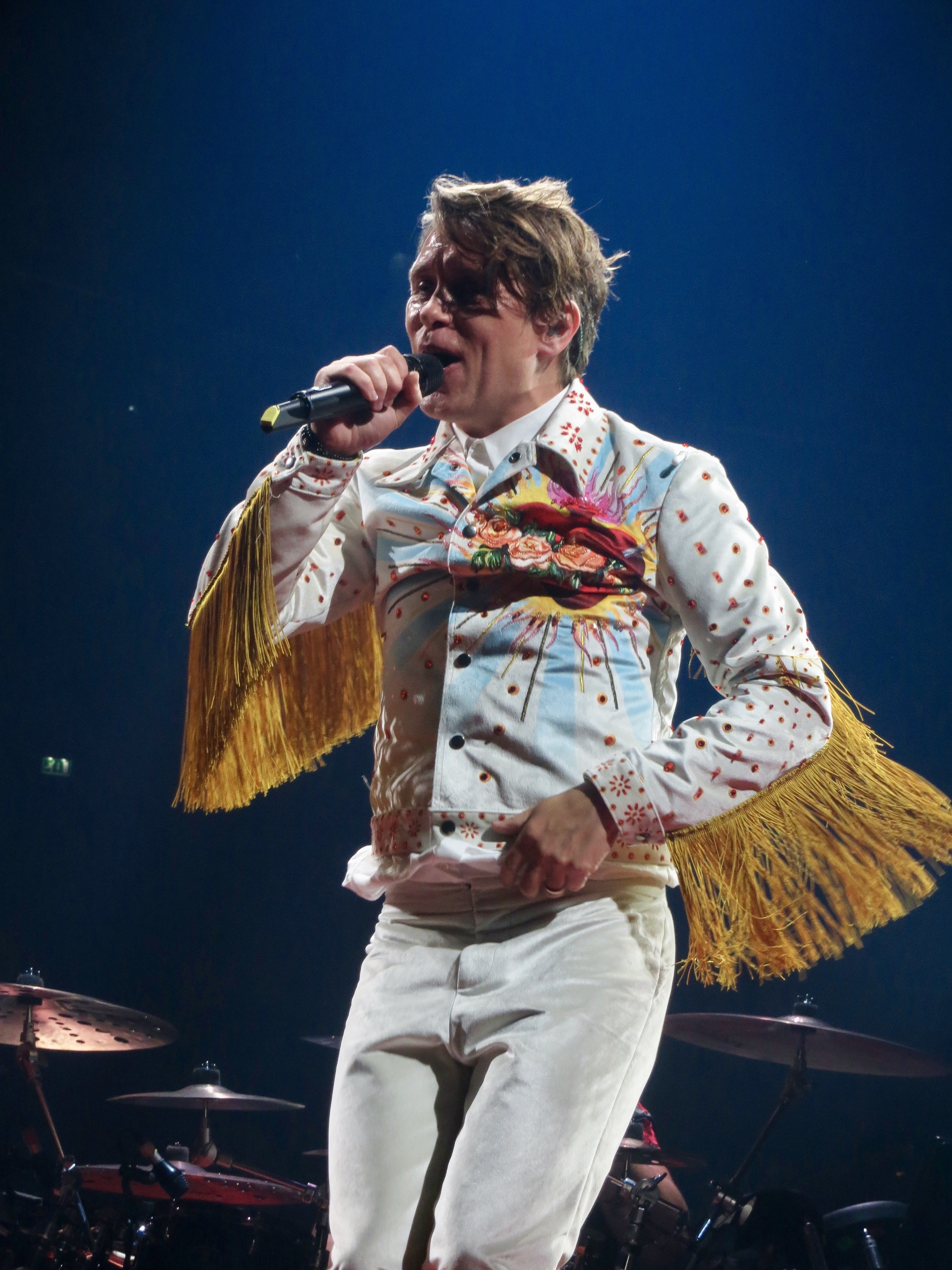 Mark Owen performing at the SSE Hydro in Glasgow during their Wonderland Live tour in 2017